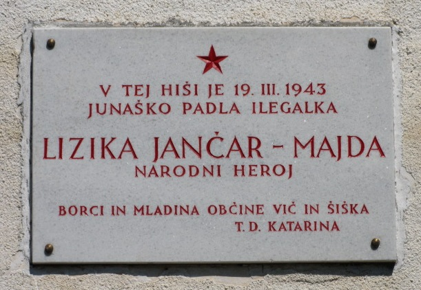 Plaque at the Lenart farm in Belo, Municipality of Medvode, commemorating the communist people's hero Lizika Jančar (a.k.a. Majda; 1919–1943), shot in Belo on 20 March 1943. Note: The plaque gives the date 19 March; according to various sources, she was captured on 19 March and shot the next day.